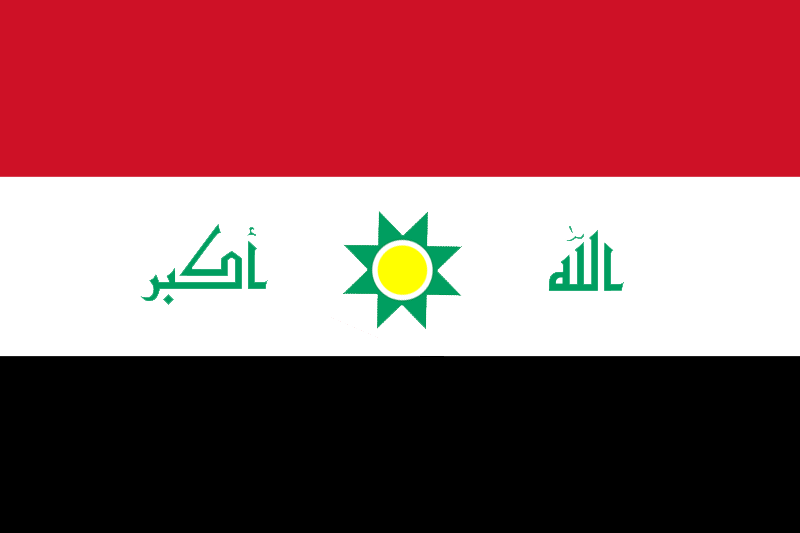 2008 initial Iraq flag proposal (influenced by the 1959-1963 flag of Iraq)